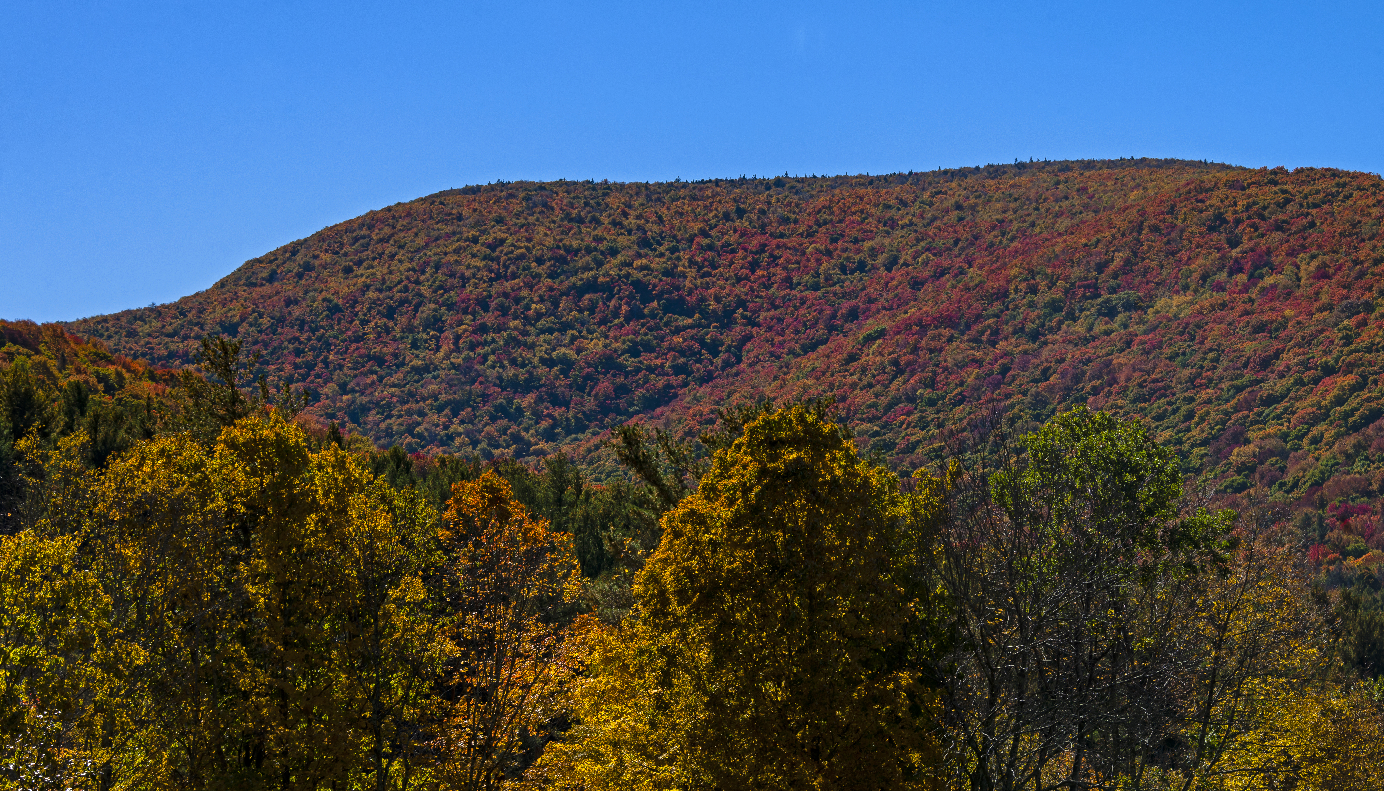 Mt. Sherill, one of the Catskill High Peaks, seen from Spruceton Road (Greene County Route 6), near West Kill, NY, USA).